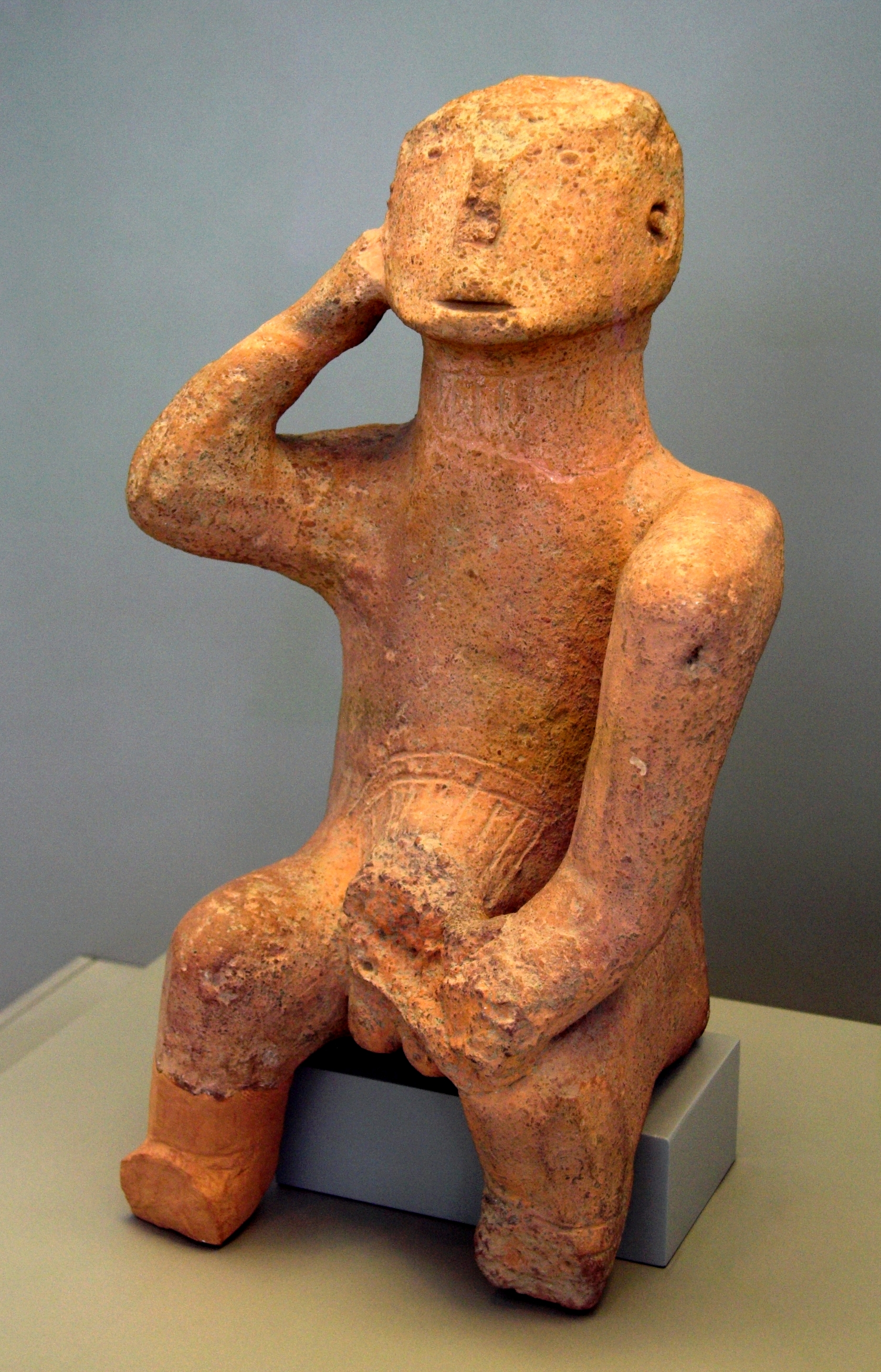 Larger terracotta ("The Thinker"), Neolithic Period, 4500-3300 BC, Karditsa, Thessaly. National Archaeological Museum of Athens 5894.